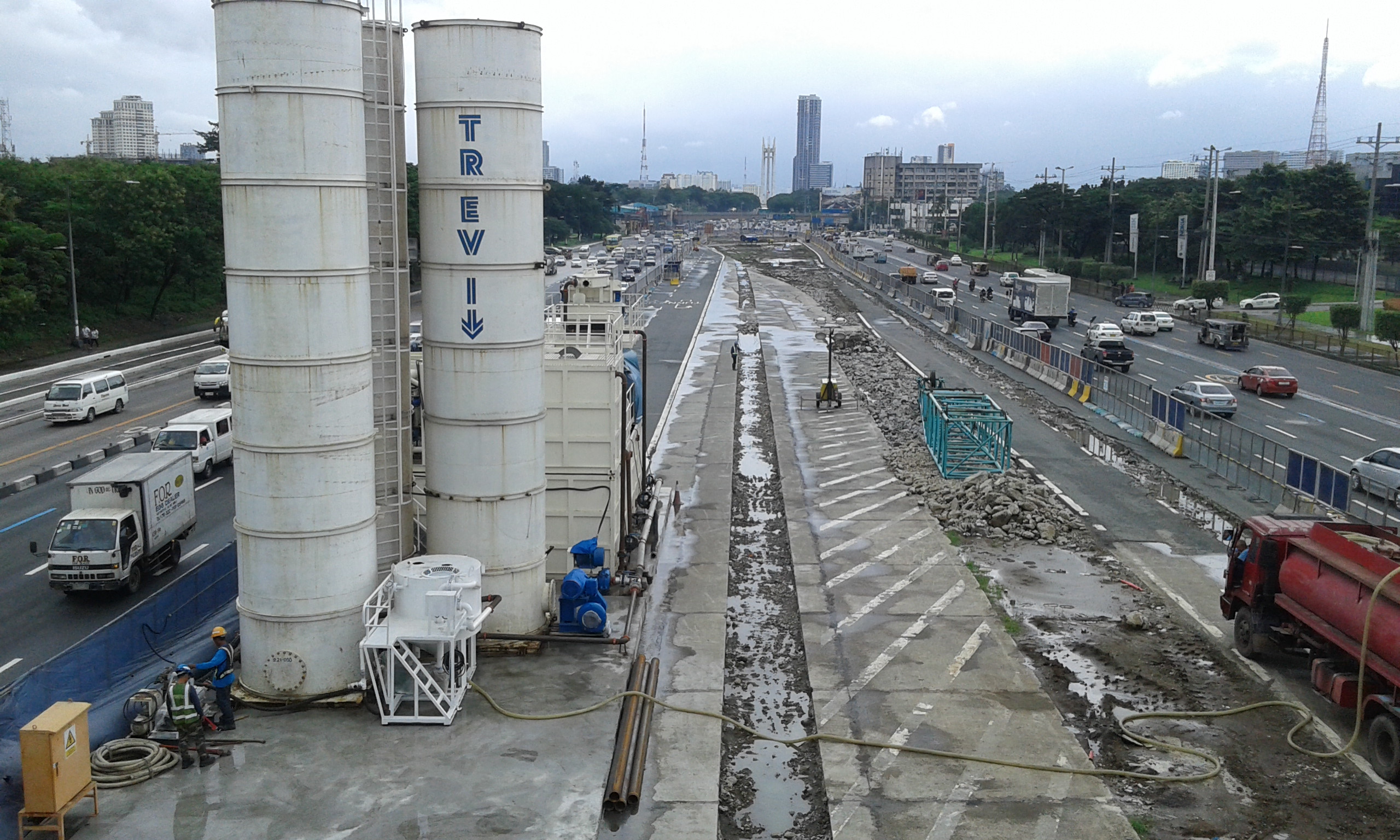 Construction of MRT-7 at Commonwealth Avenue as of October 14, 2017